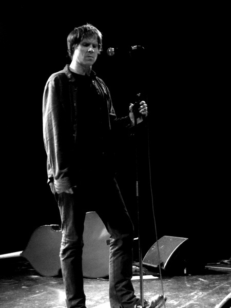 Mark Lanegan, Le Trabendo, 2008